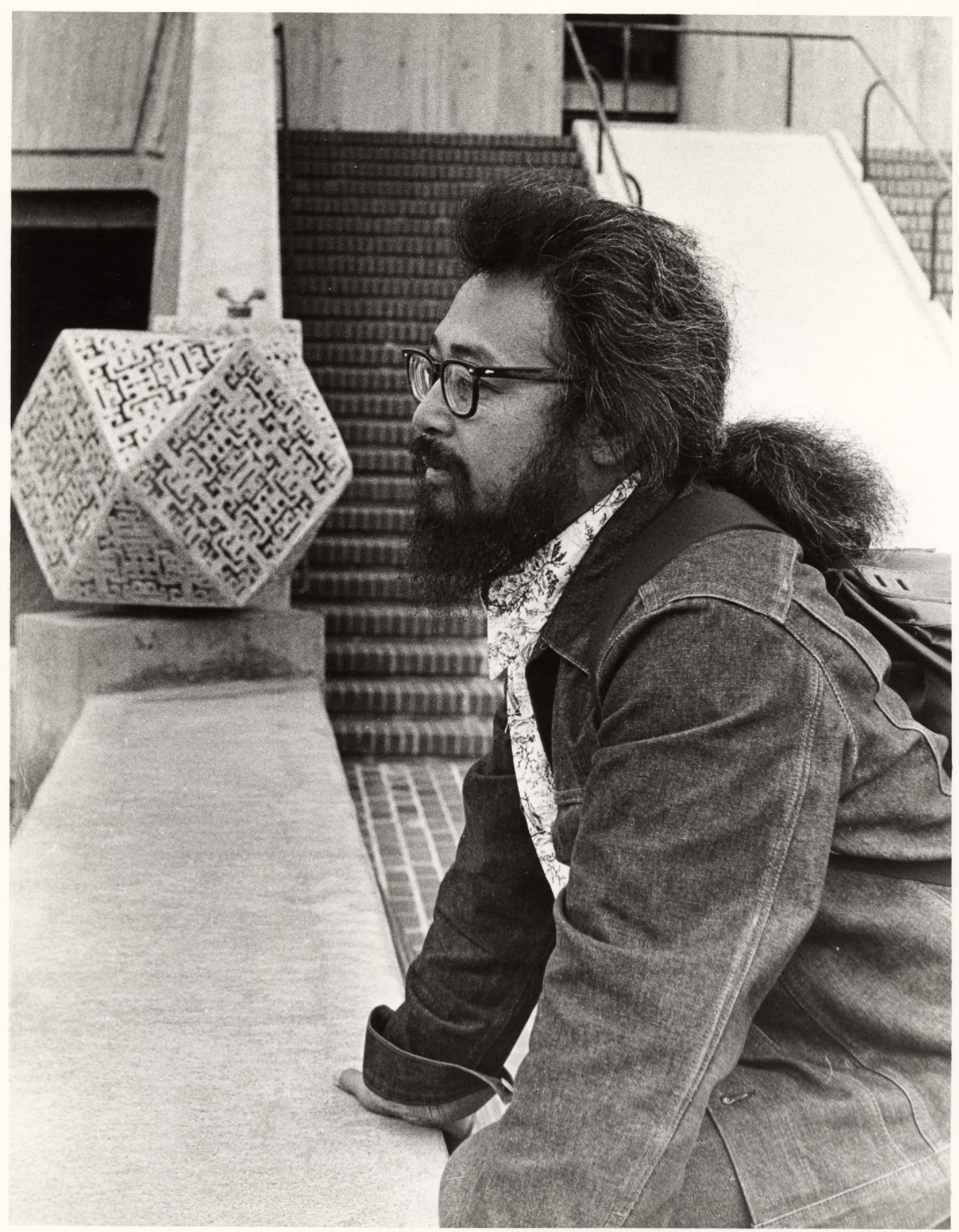 Al Robles, San Francisco poet and housing activist, 1975, on bridge joining Portsmouth Square and the Chinese Culture Center on Kearny Street near Washington street in San Francisco's Chinatown